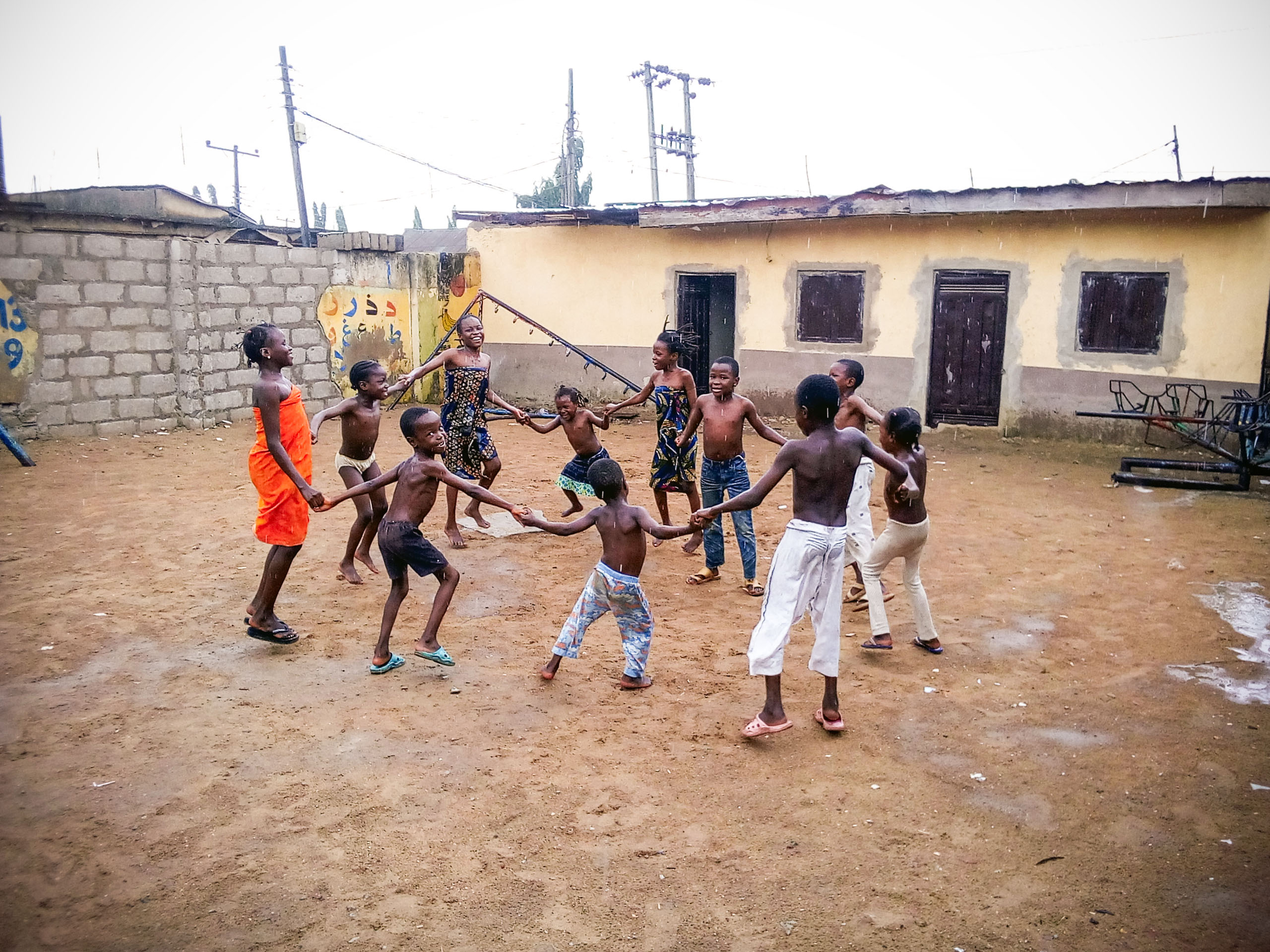 Most of the Children in Africa usually rejoice and feel happy all over across Continent when the first rain starts to fall, the children in this picture are playing in a school playground and rejoice for the first rainfall in their land, they know that its another season of new beginnings and hope, the rain comes with many blessings. its another season of hope. it's on Monday afternoon 25th February 2019. This is an image with the theme "Play" from: Nigeria